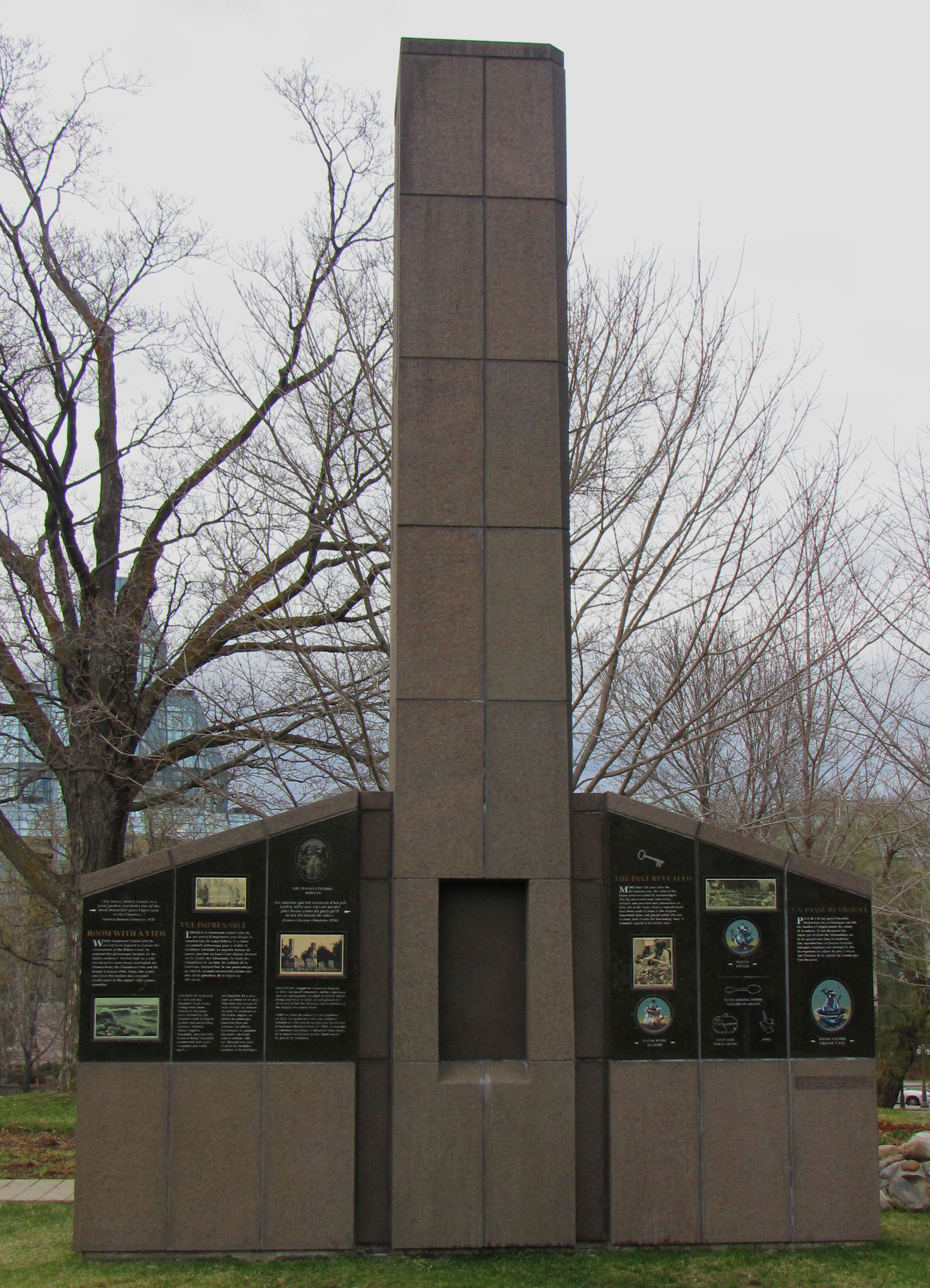 Sculpture commemorating John By's residence in Major's Hill Park, Ottawa, Ontario, Canada. Original was burned to the ground in 1848.